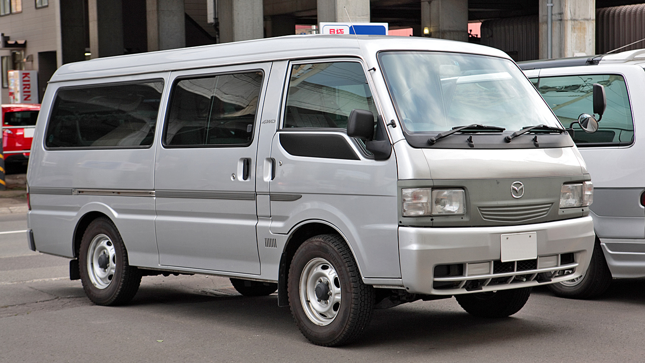 Mazda Bongo Brawny 2.0Turbo-D GL (ADF-SKF6V)